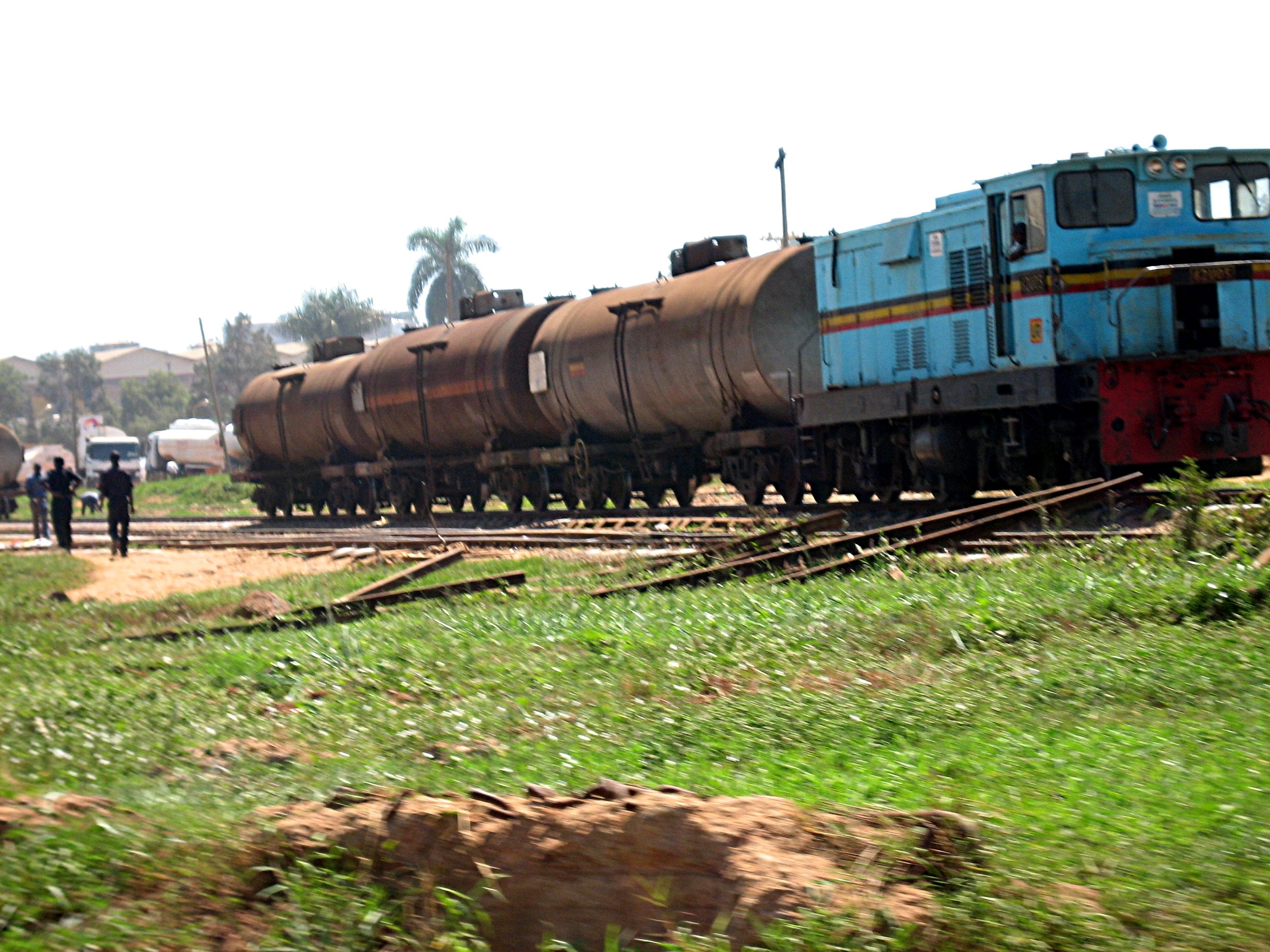 Freight train of the Uganda Railway in Ugandas capital Kampala.